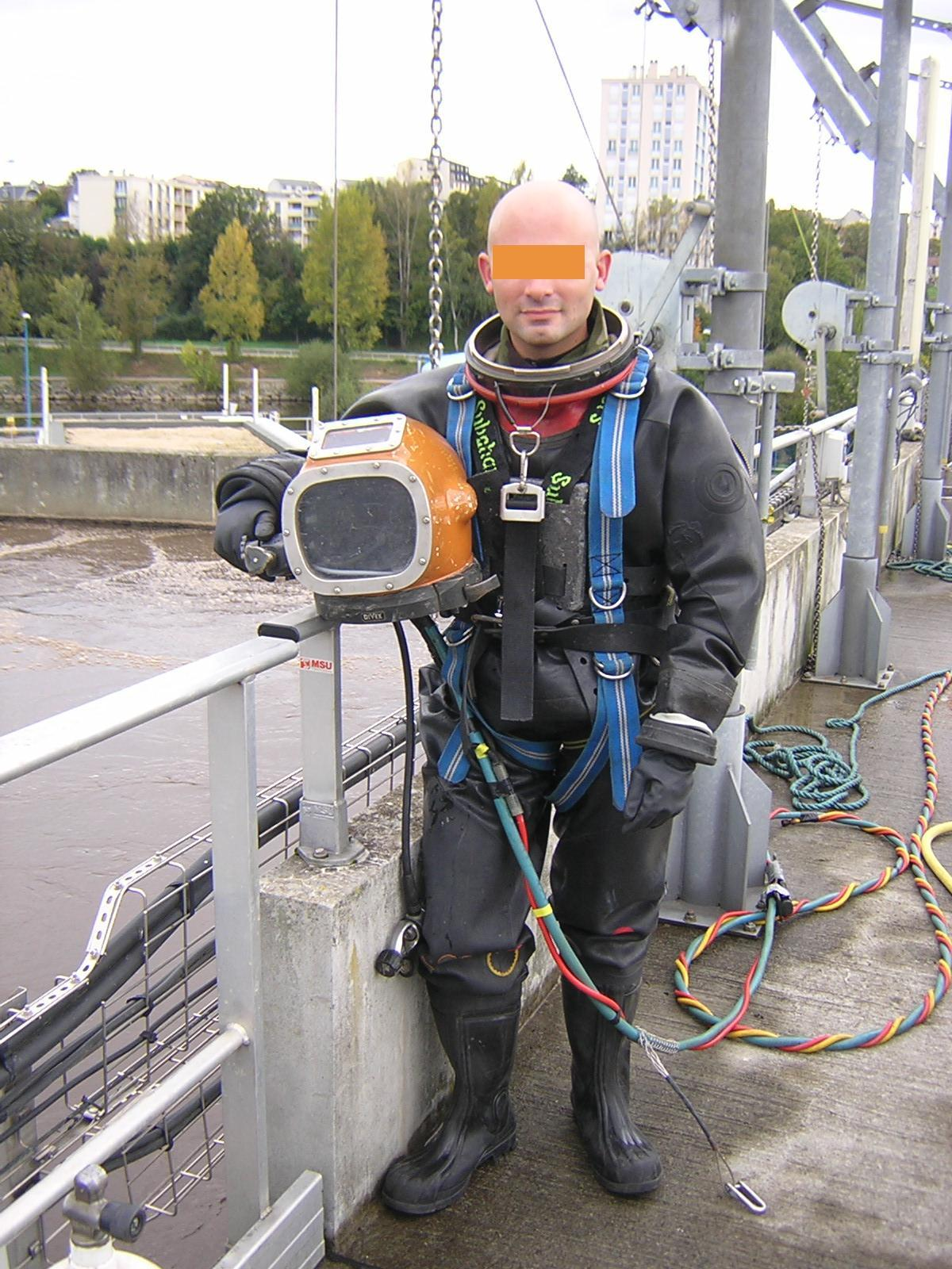 commercial diver polluted water.jpg